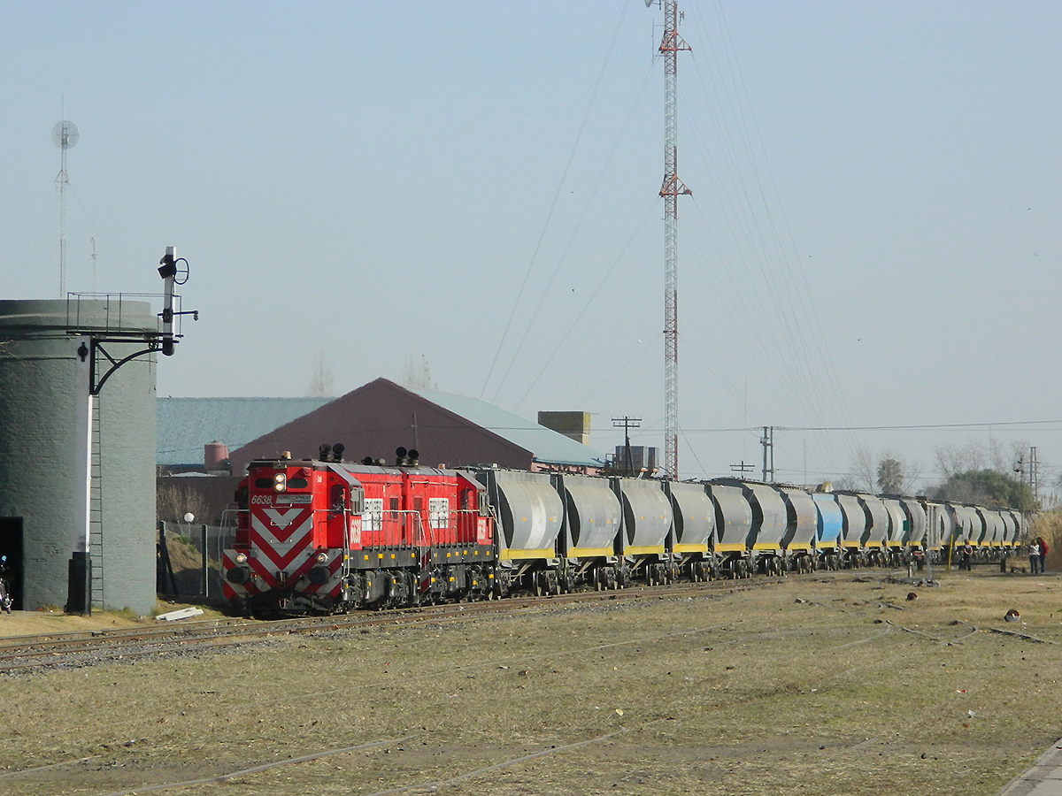 Two General Motors G12 Ferroexpreso Pampeano locmotives carrying frieght in Argentina.